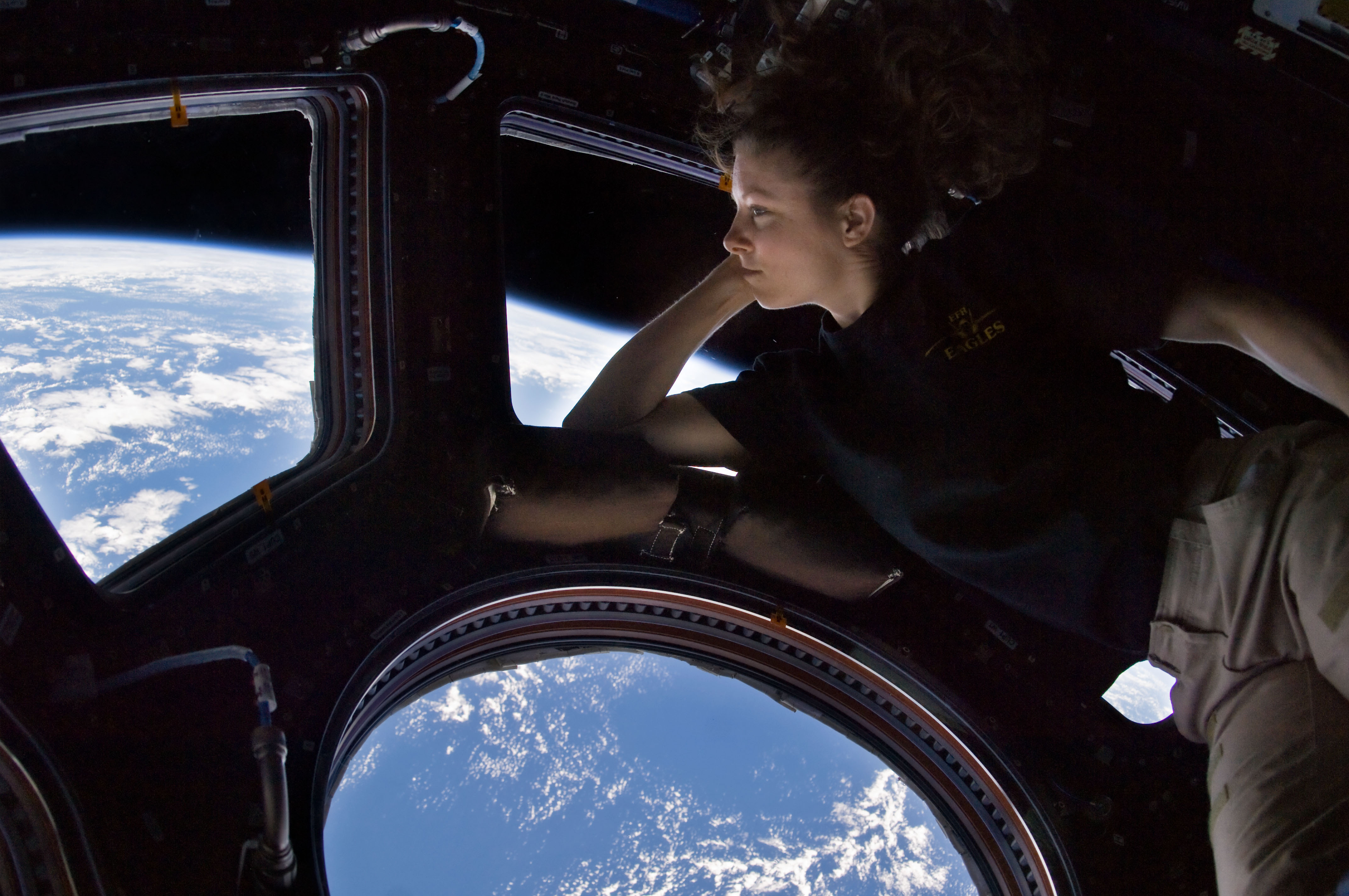 Self portrait of Tracy Caldwell Dyson in the Cupola module of the International Space Station observing the Earth below during Expedition 24.